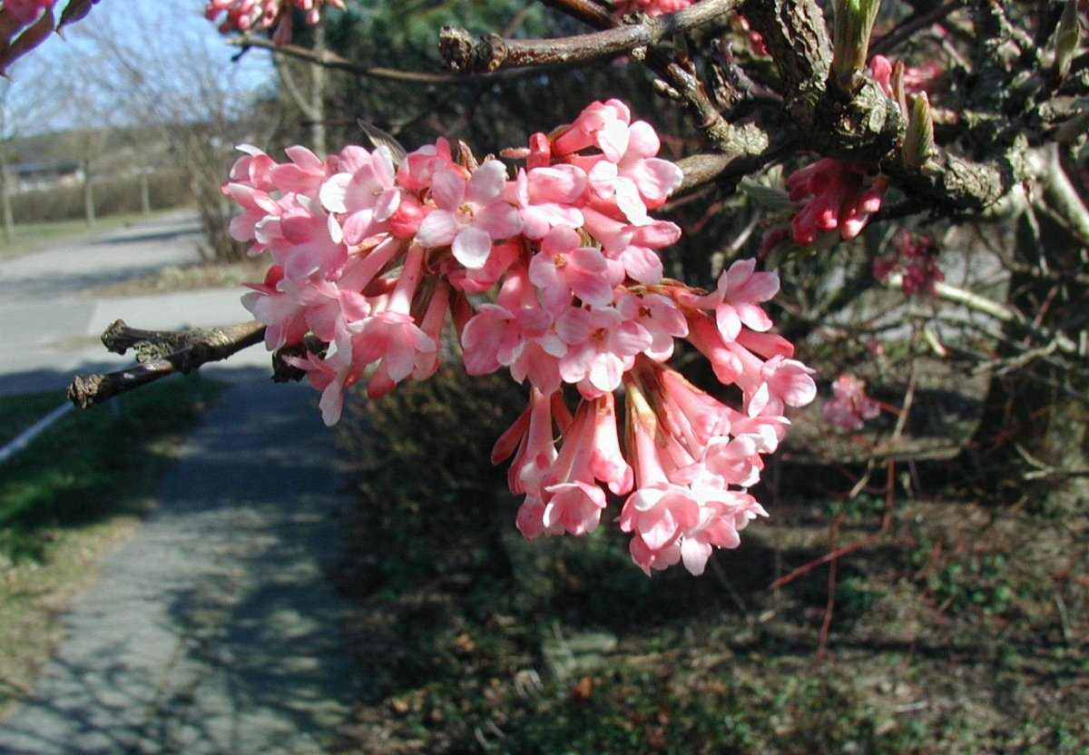 Viburnum farreri: Flowers